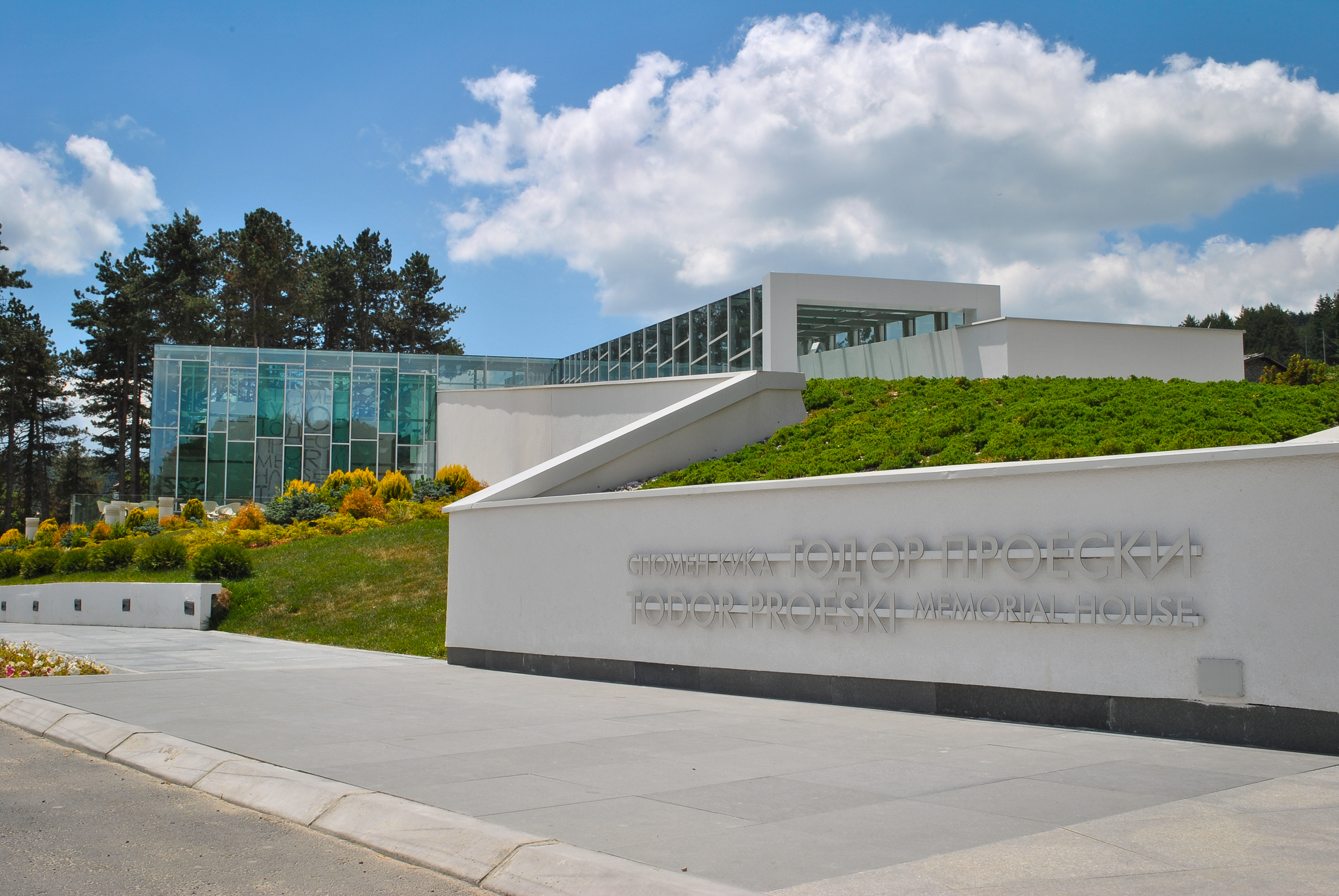 Todor Proeski memorial house, Krushevo